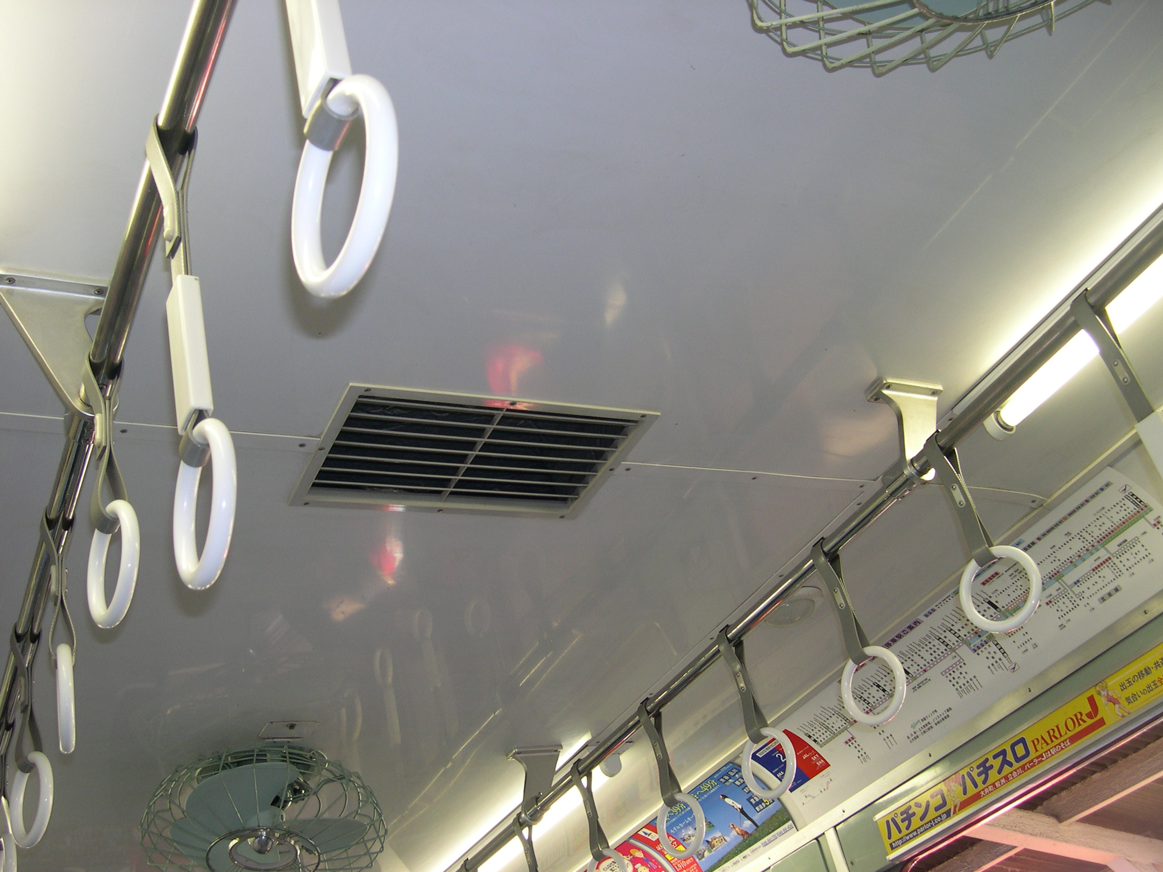 Air conditioner outlet underneath a pantagraph on Keikyu 723